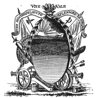 Engraving depicting a ticket for entrance to the Mischianza, a party honoring General William Howe prior to his departure from Philadelphia in 1778.